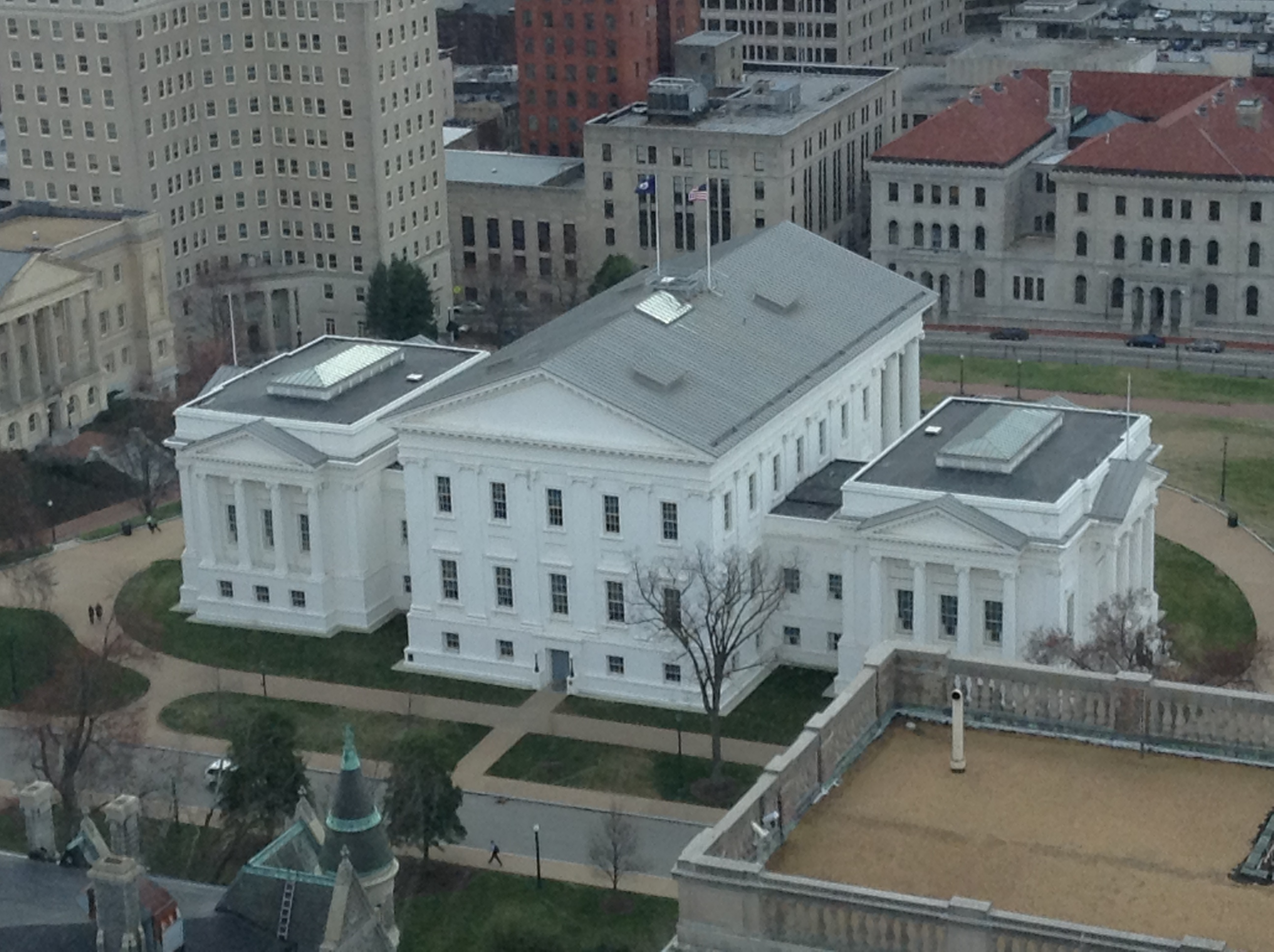 Photo taken March 17, 2015